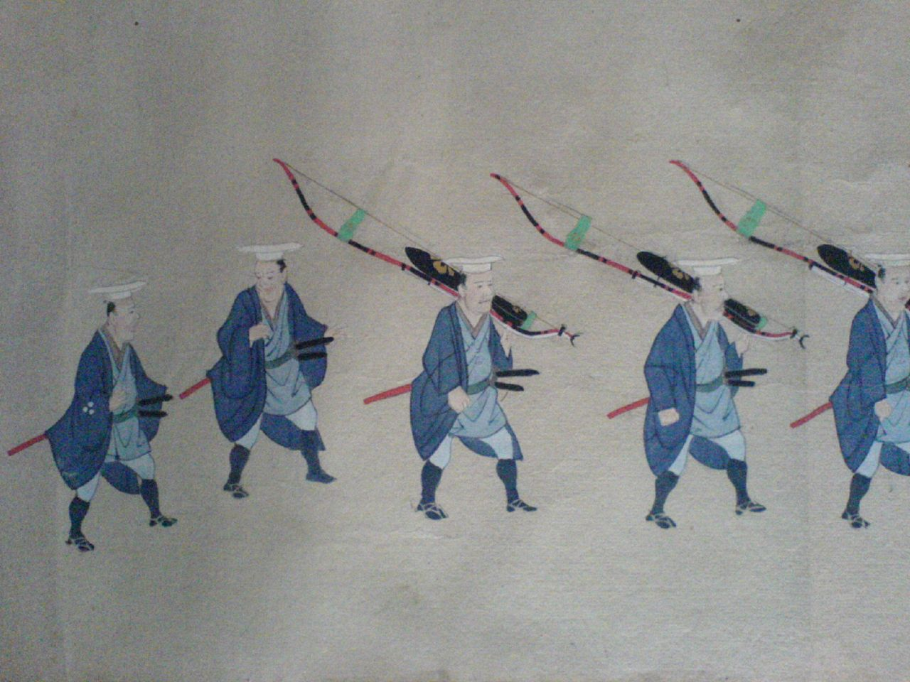 Images of yumi (bow) and utsubo (quiver), Hemiji-jo castle Japan.